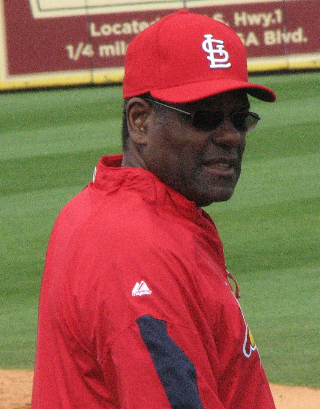 Hall of Fame baseball player Bob Gibson at Roger Dean Stadium during 2010 Spring Training for the St. Louis Cardinals. Photo taken with a Canon PowerShot S3 IS digital camera.